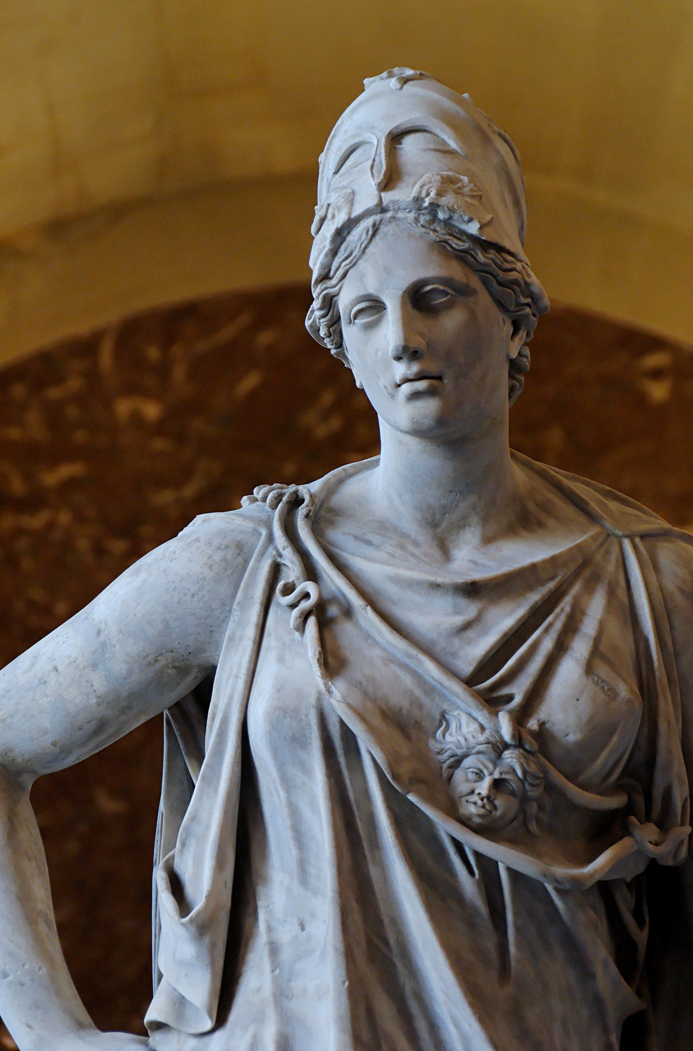 So-called “Mattei Athena”. Marble, Roman copy from the 1st century BC/AD after a Greek original of the 4th century BC, attributed to Cephisodotos or Euphranor. Related to the bronze Piraeus Athena.